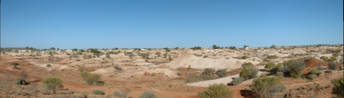 Panograph photo of the opal fields of White Cliffs, New South Wales.